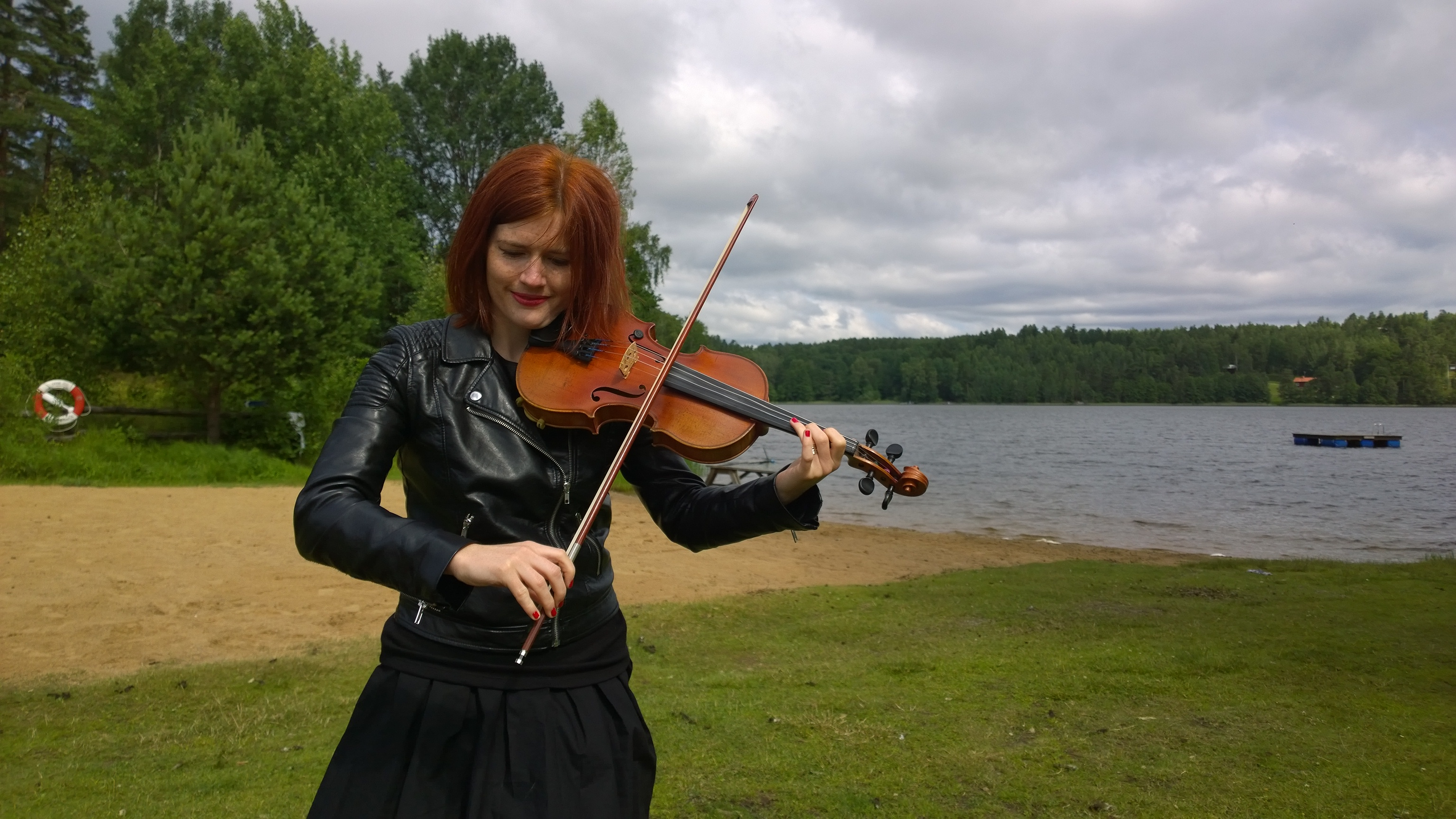 Ellinor Fritz